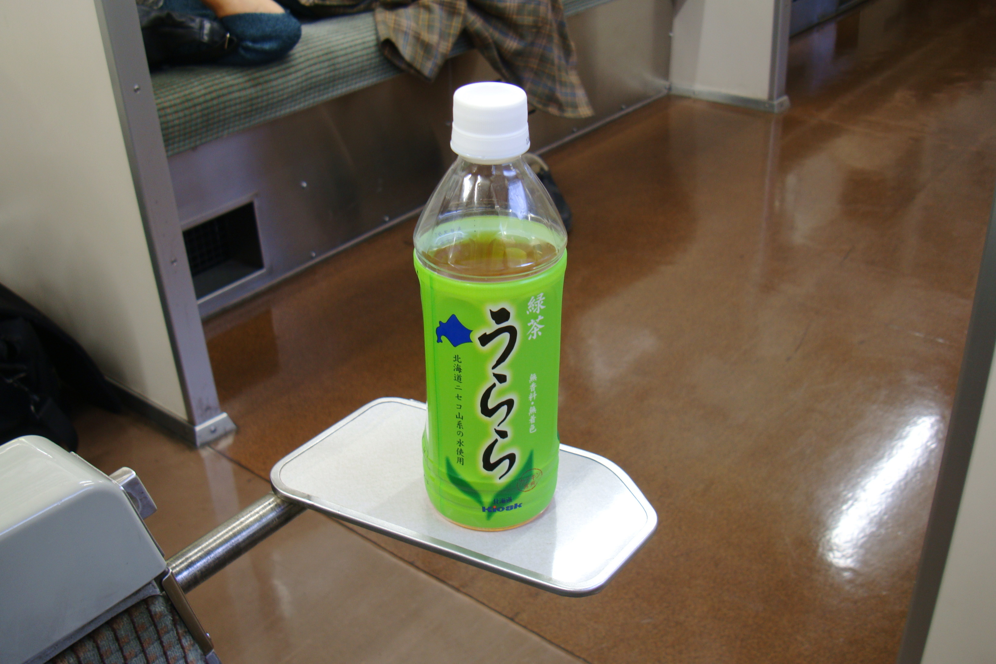 Hokkaidō Kiosk original bland green tea "Urara"